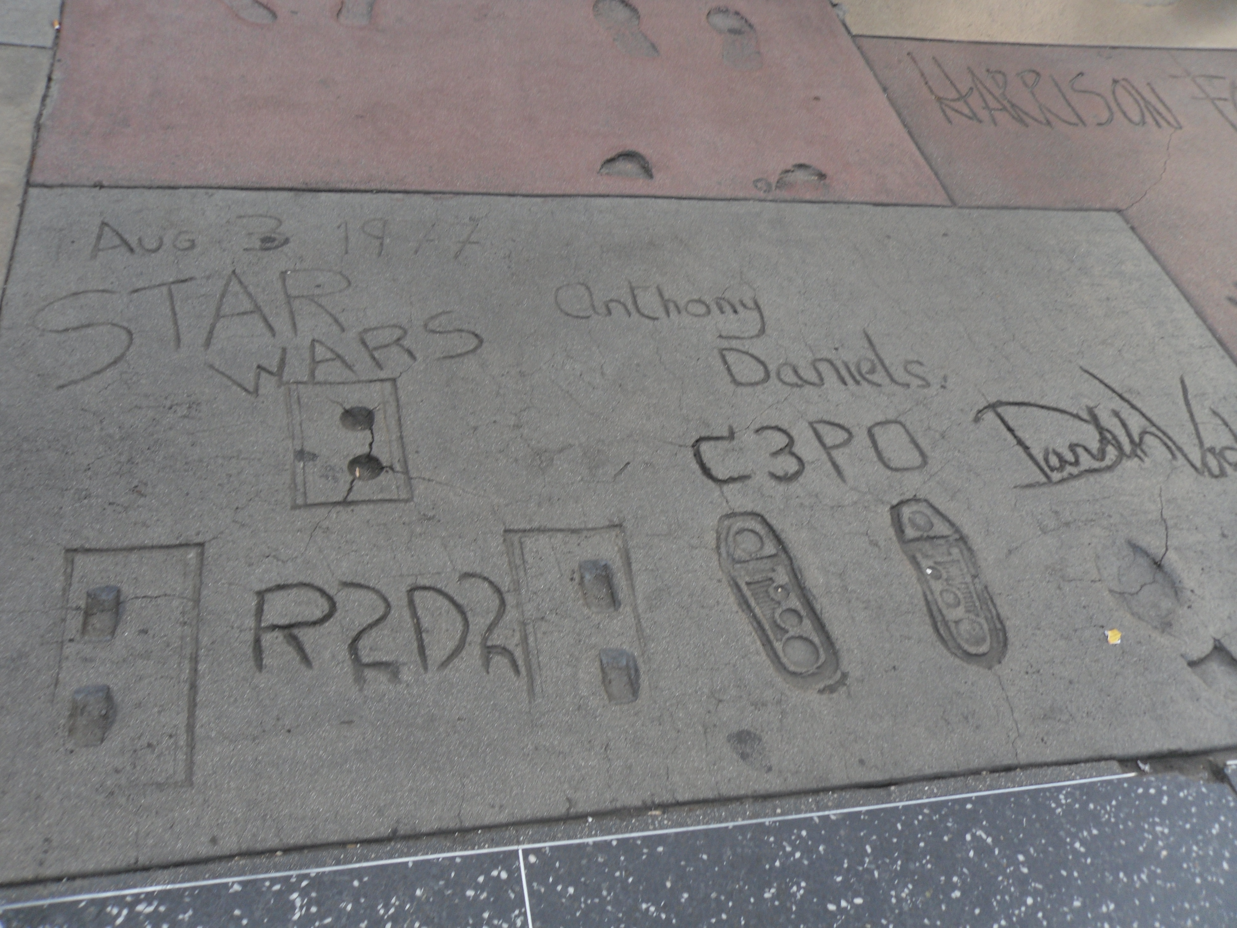 R2D2 C3PO and Darth Vader's footprints and handprints at Grauman's Chinese Theatre